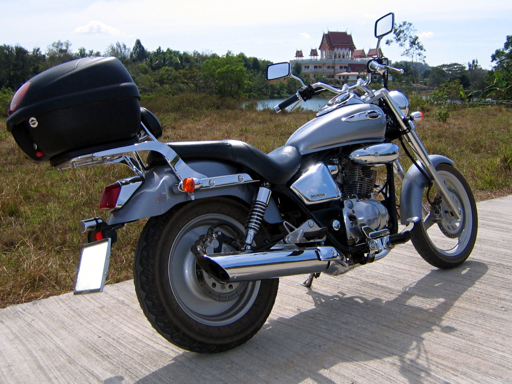 Honda Phantom TA200 is a Thai-made four-stroke custom bike ("chopper" style as the locals call it proudly). While only 200cc, it is the biggest bike commonly available in Thailand and other South-East Asian countries. This bike is model year 2004.